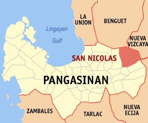 Map of Pangasinan showing the location of San Nicolas